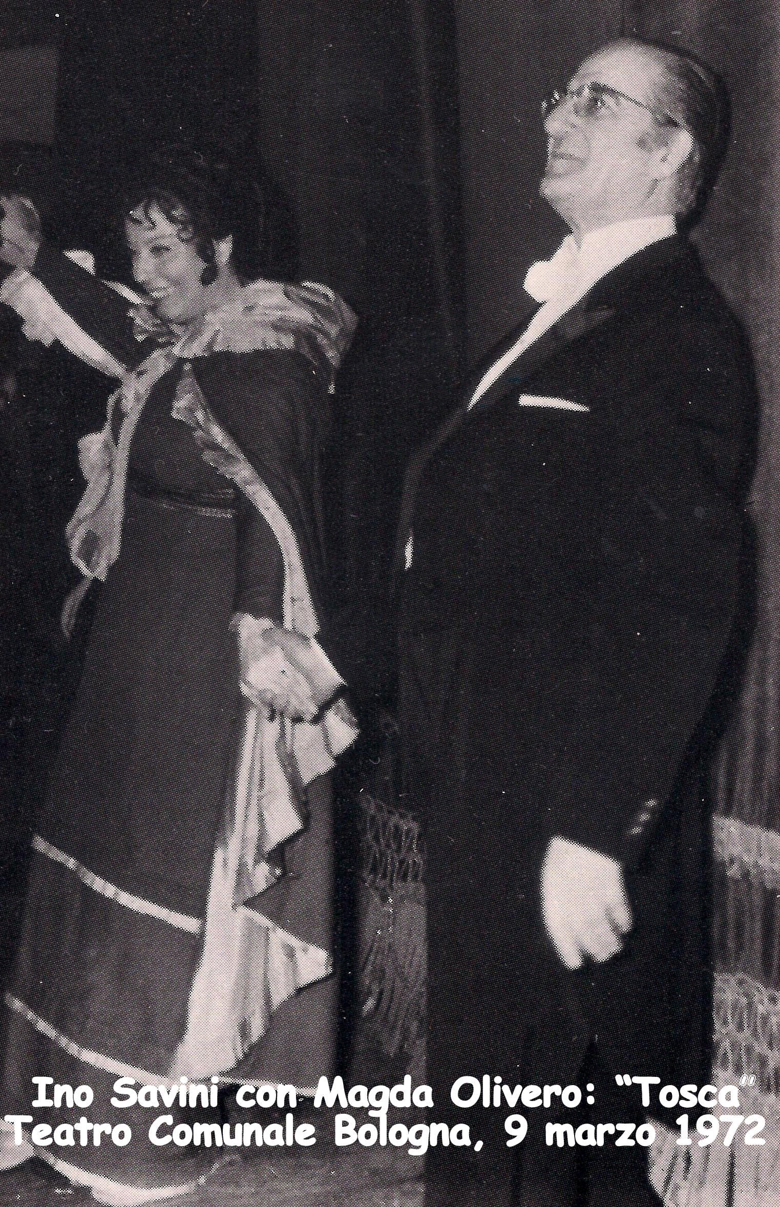 Conductor Ino Savini and soprano Magda Oliveroː Tosca by G. Puccini Chorus and Orchestra Teatro Comunale Bologna (I), 1972-03-09